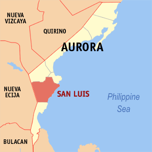 Map of Aurora showing the location of San Luis